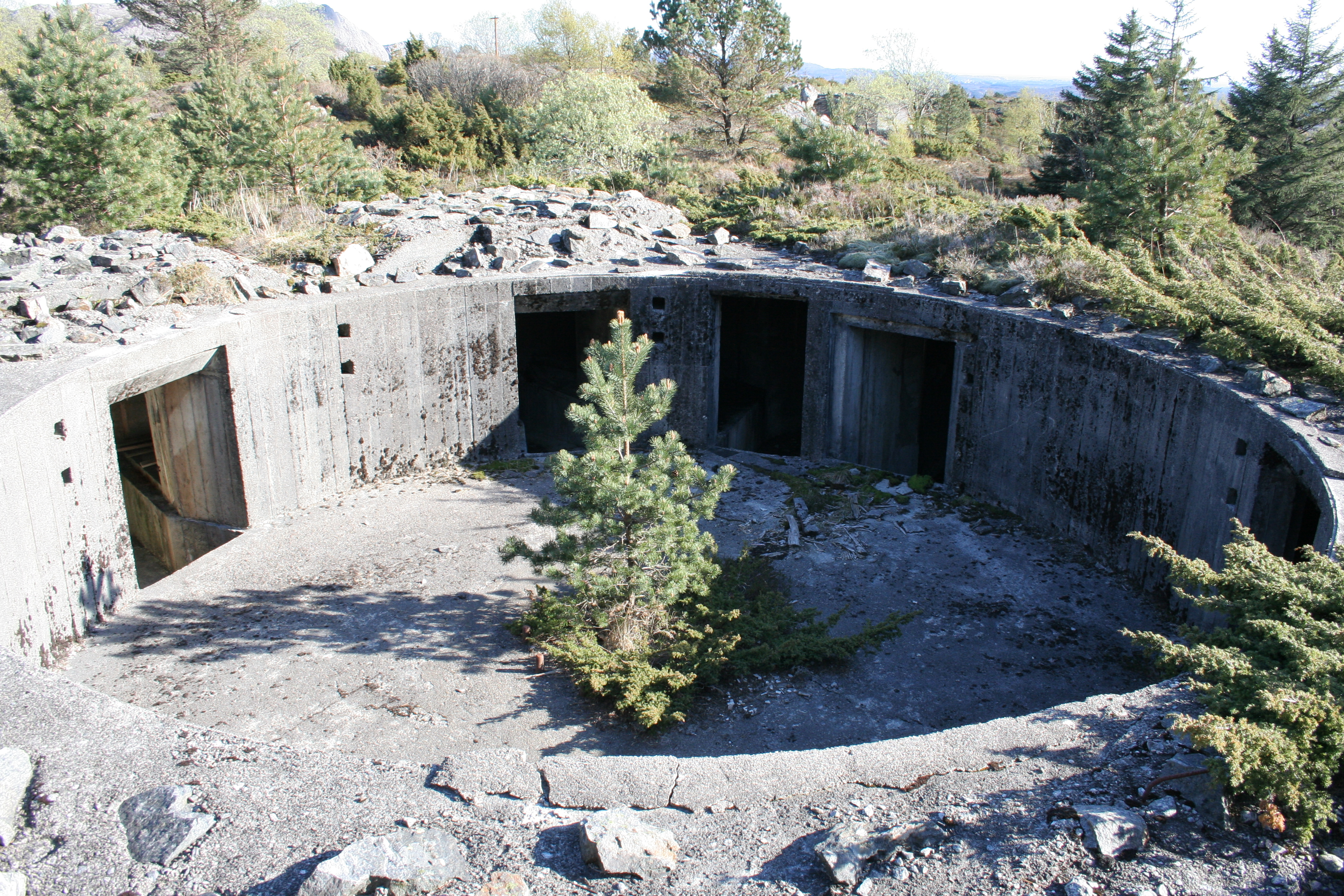 Flak emplacement, Fjell festning, Hordaland, Norway.